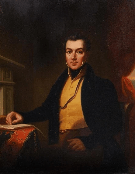 Portrait of John Fitzgerald (1775–1852), British politician.